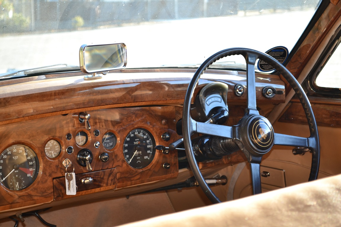 Jaguar MK-IX 1960 owned by Peter Dam Madsen